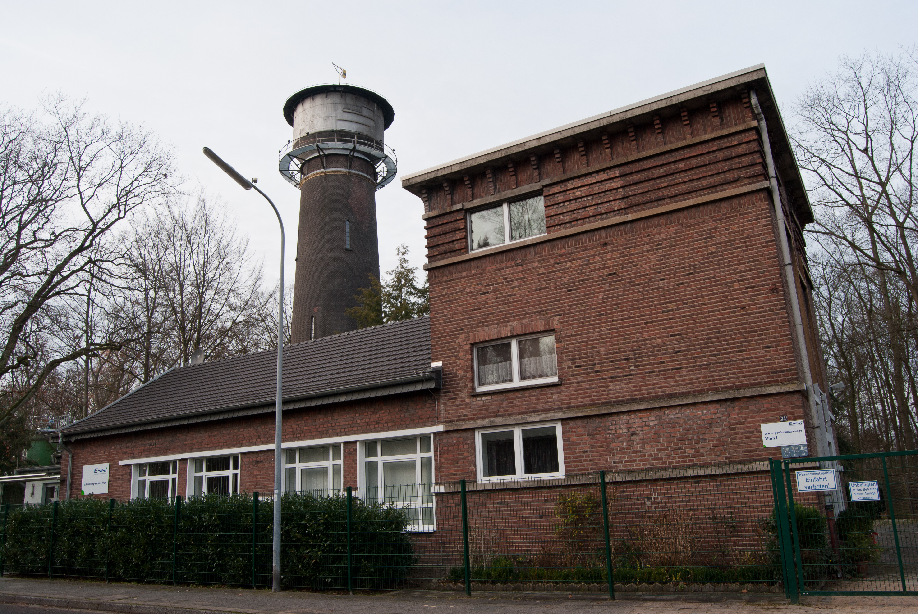 Moers (North Rhine-Westphalia, Germany) – district Vinn – old pumphouse and water tower This image shows a heritage building in Germany, located in the North Rhine-Westphalian city Moers (no. 70). This photograph was taken with a Nikon D3000.